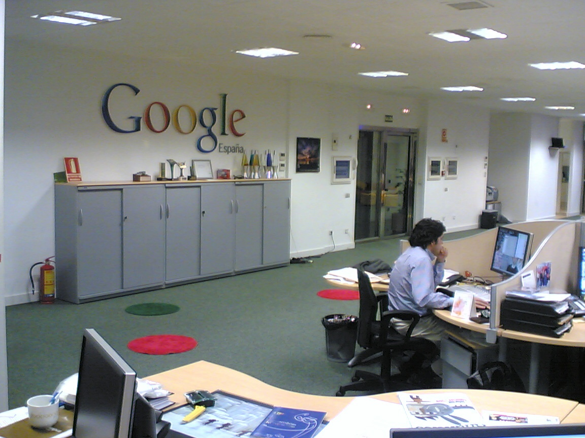 Former offices of the Googleplex in Spain - C./ Pinar, 5, 28006 - Madrid